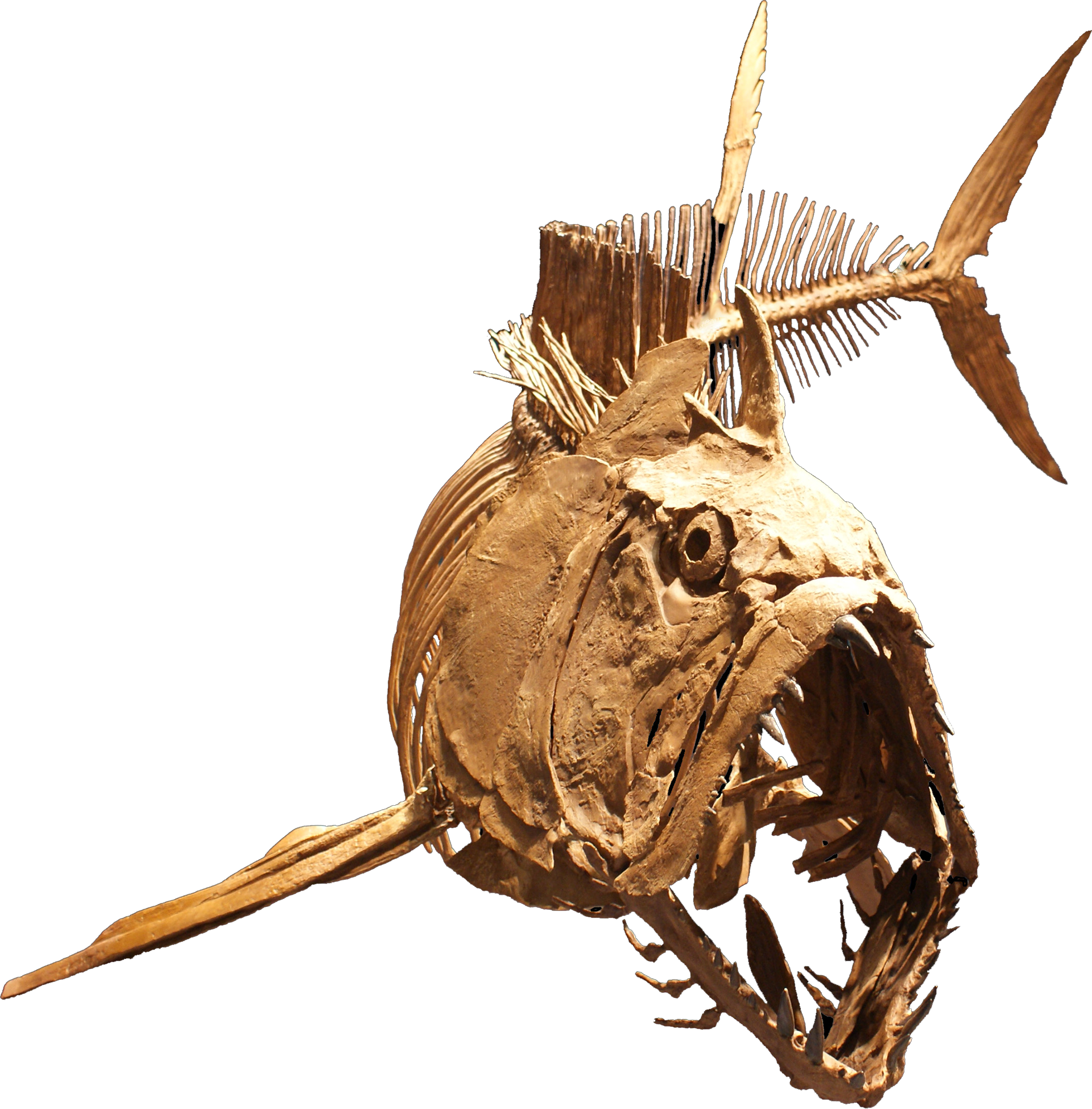 Xiphactinus audax three-dimensionally restoreded skeleton in the Rocky Mountain Dinosaur Resource Center in Woodland Park, Colorado